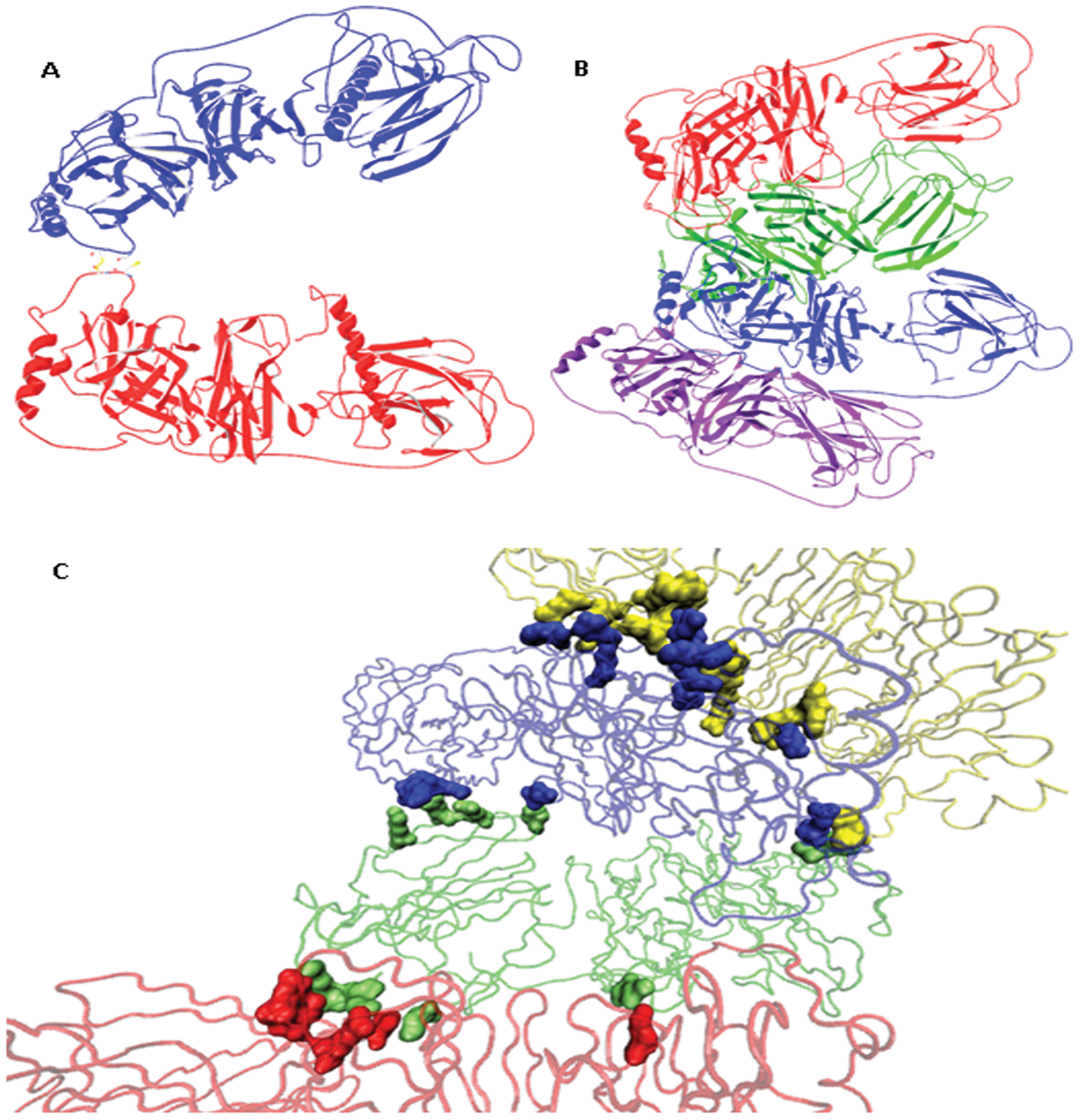 A structural model of DBH based on experimental data, in silica prediction, and physiochemical validation. Kapoor A, Shandilya M, Kundu S (2011) Structural Insight of Dopamine β-Hydroxylase, a Drug Target for Complex Traits, and Functional Significance of Exonic Single Nucleotide Polymorphisms. PLoS ONE 6(10): e26509.